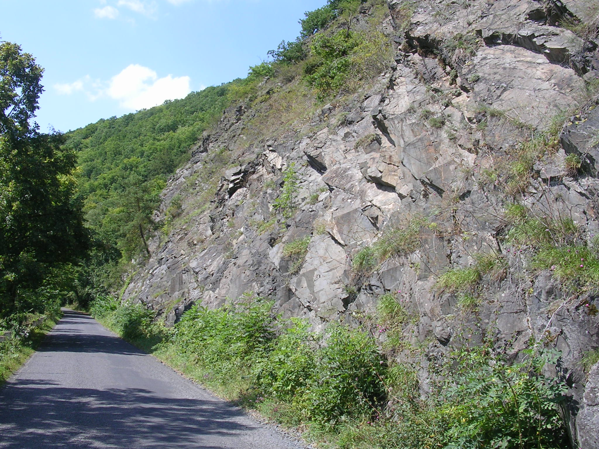 Nezabudice, Rakovník District, Central Bohemian Region, the Czech Republic. Nezabudice Rocks.